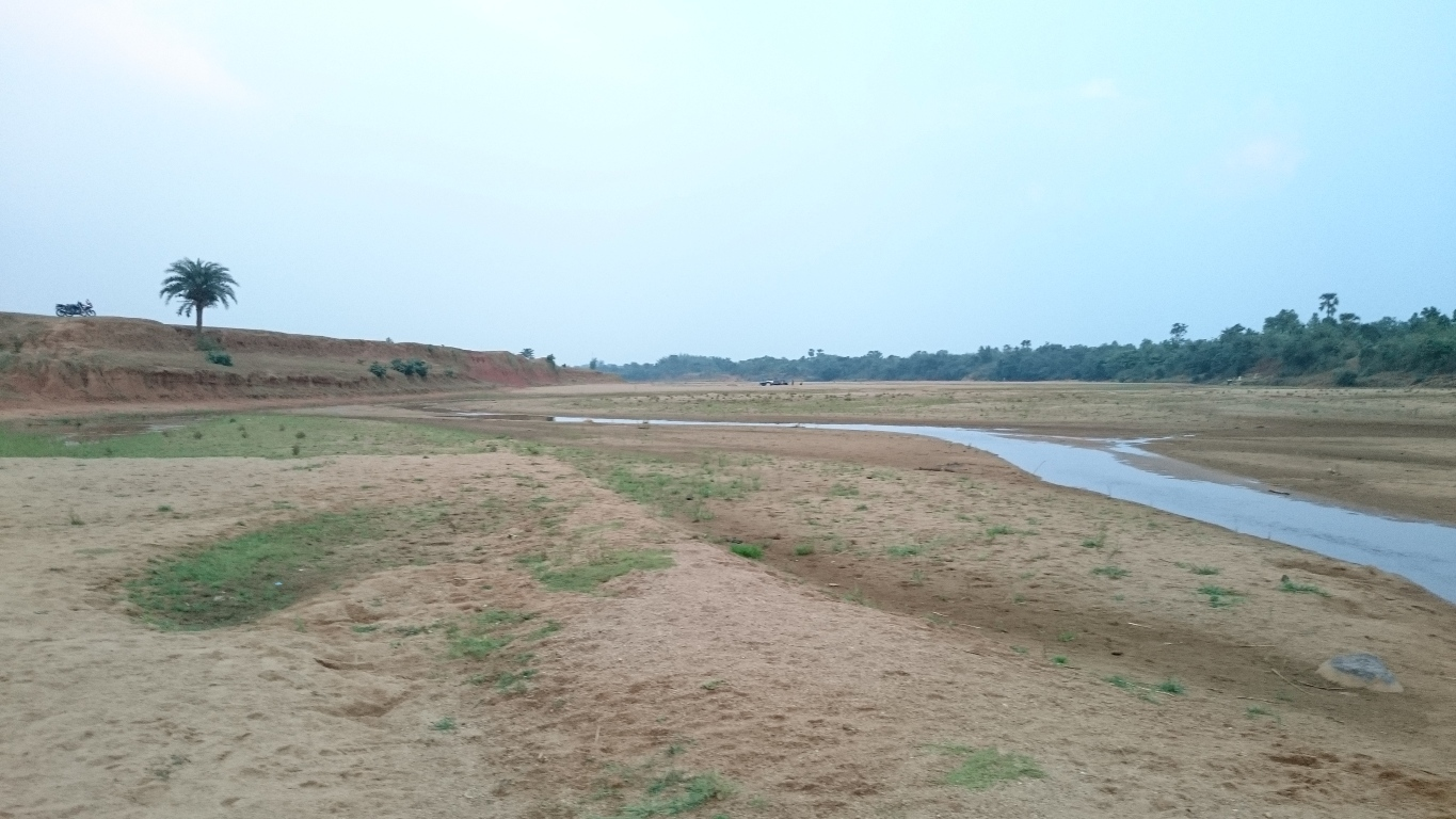 Mayurakshi River near Dumka